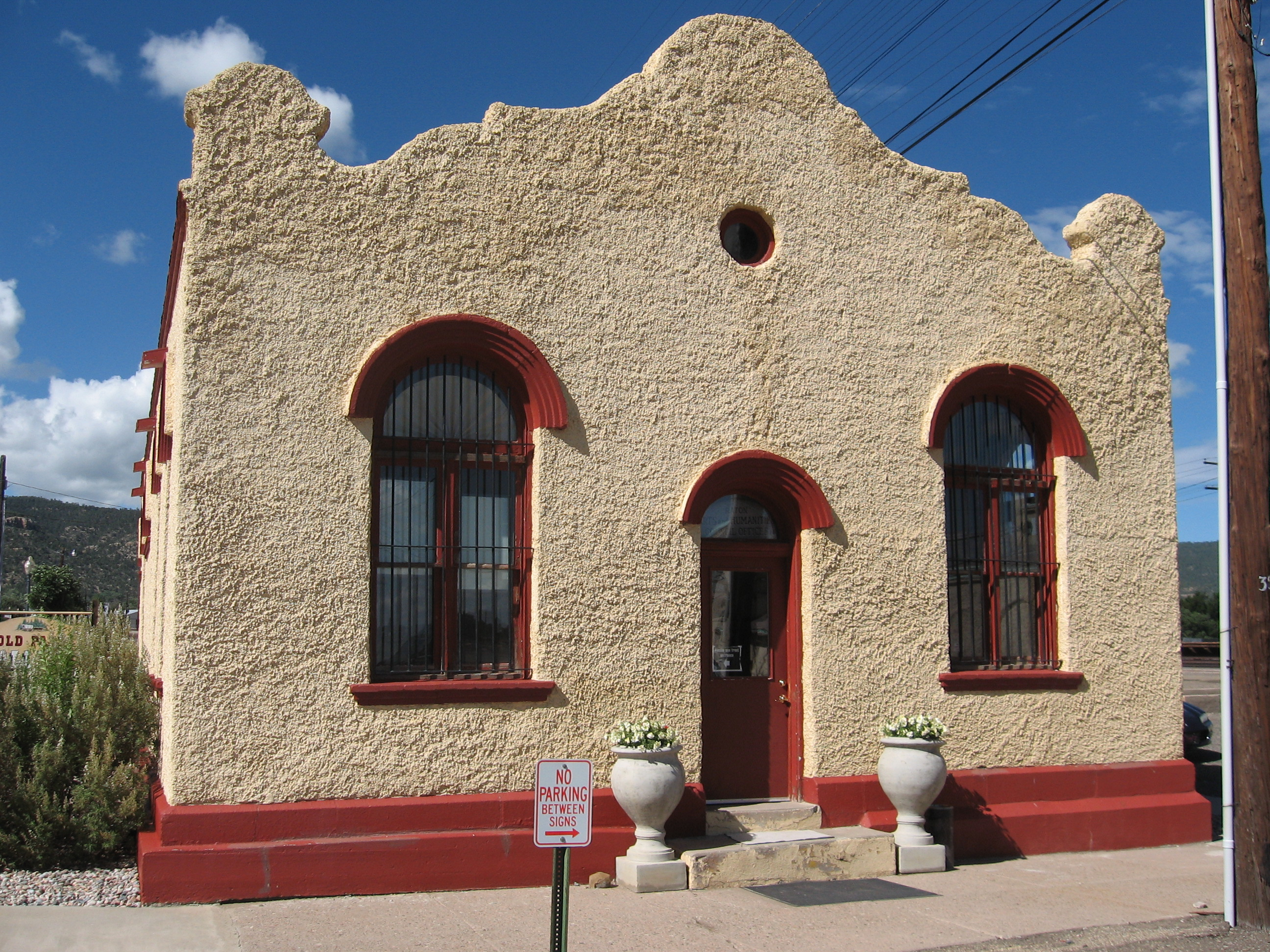 Wells Fargo Express Company building, Raton, Colfax County, New Mexico. Built 1910, in the Spanish Mission Revival Style of architecture.